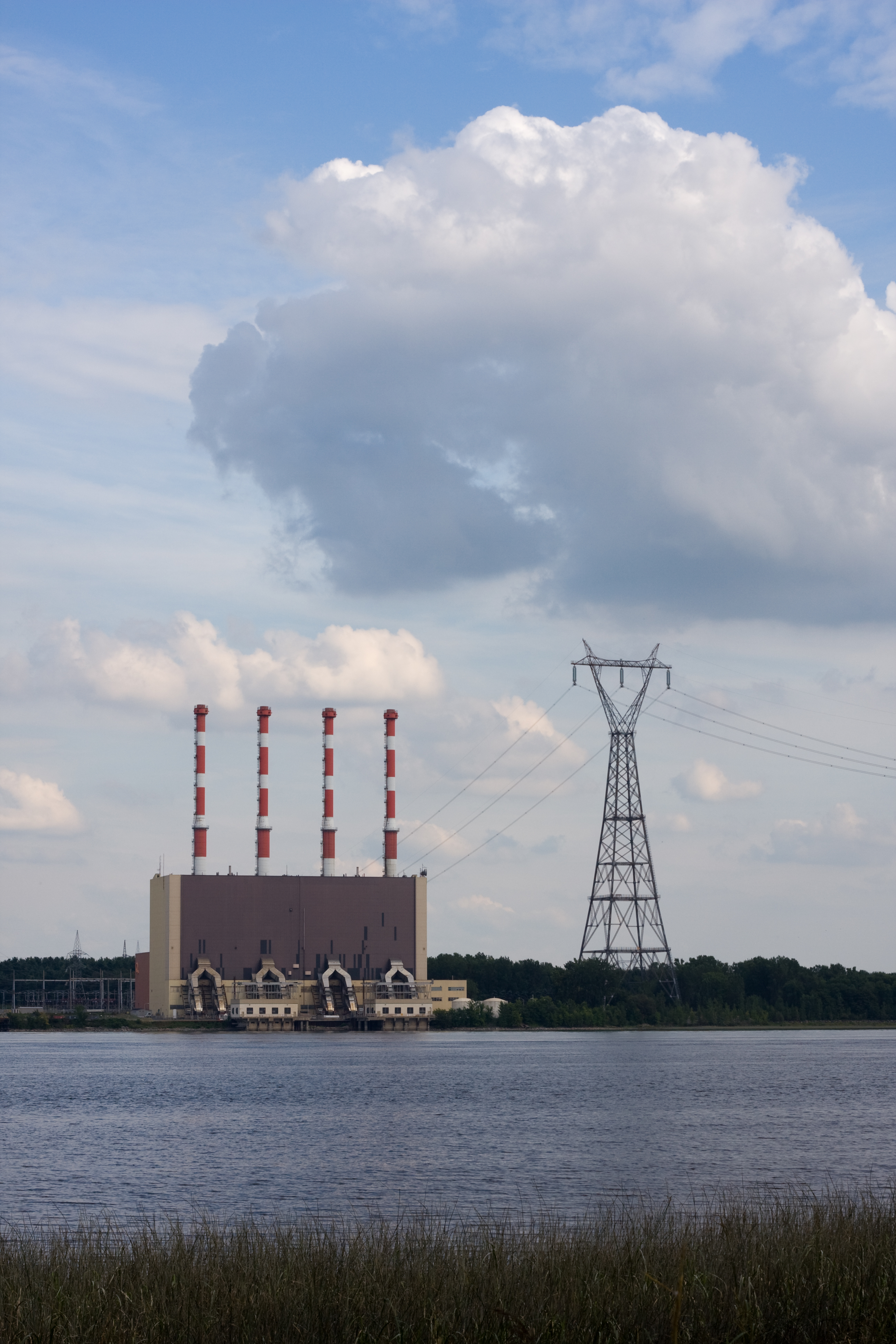 Hydro-Québec's Tracy thermal generating station. Picture taken from route 138, between Lanoraie and Berthierville.